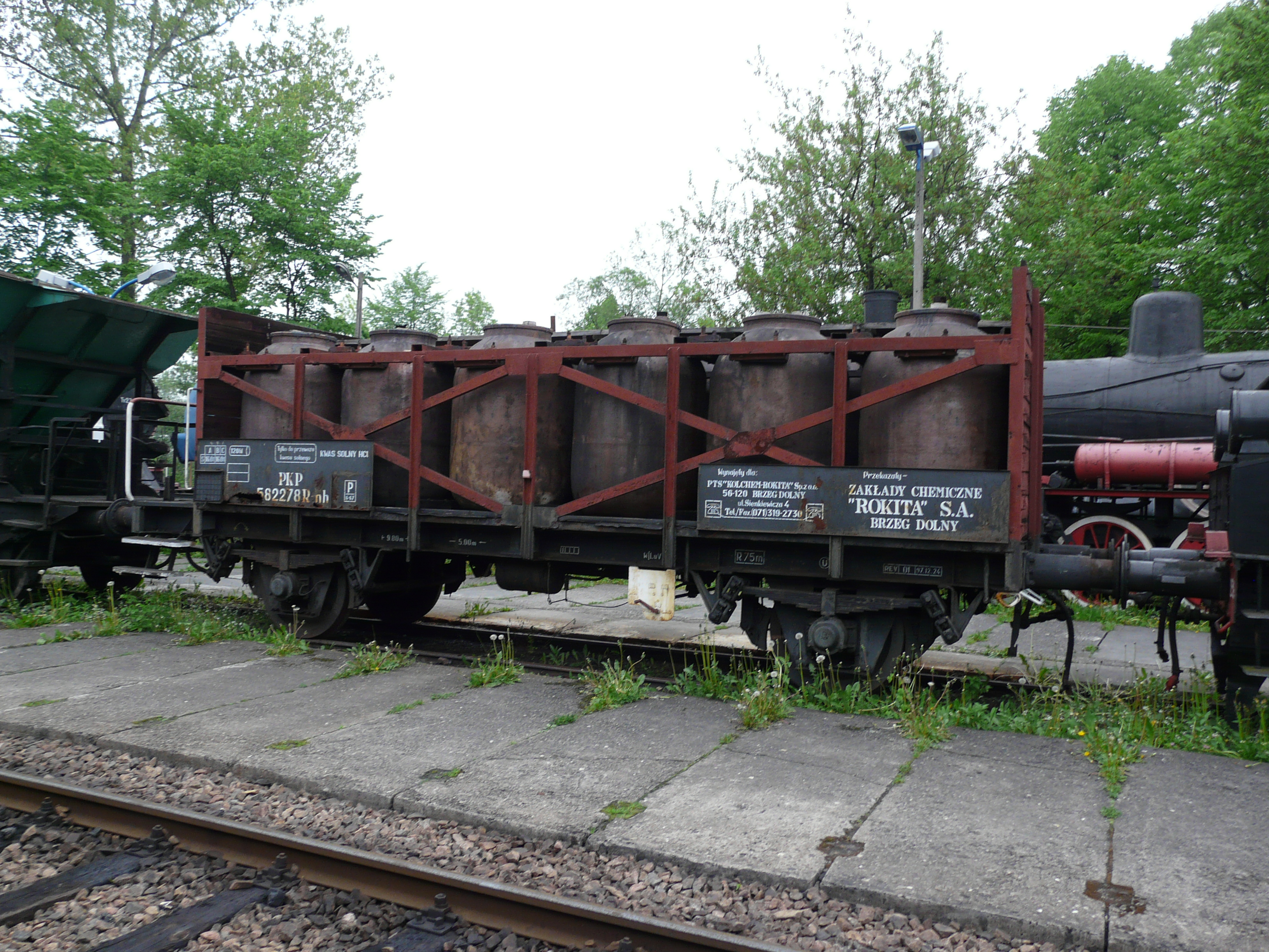 Tank wagon for hydrochloric acid in Chabówka Rolling-Stock Heritage Park